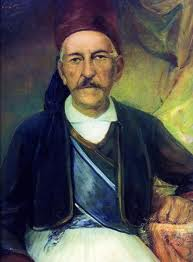 Benizelos Rouphos